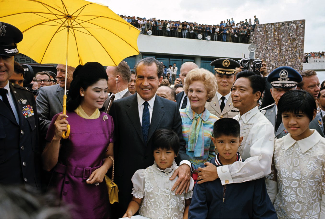 Richard and Pat Nixon (center) at the Manila International Airport with Imelda and Ferdinand Marcos and their children Irene, Bongbong, and Imee.